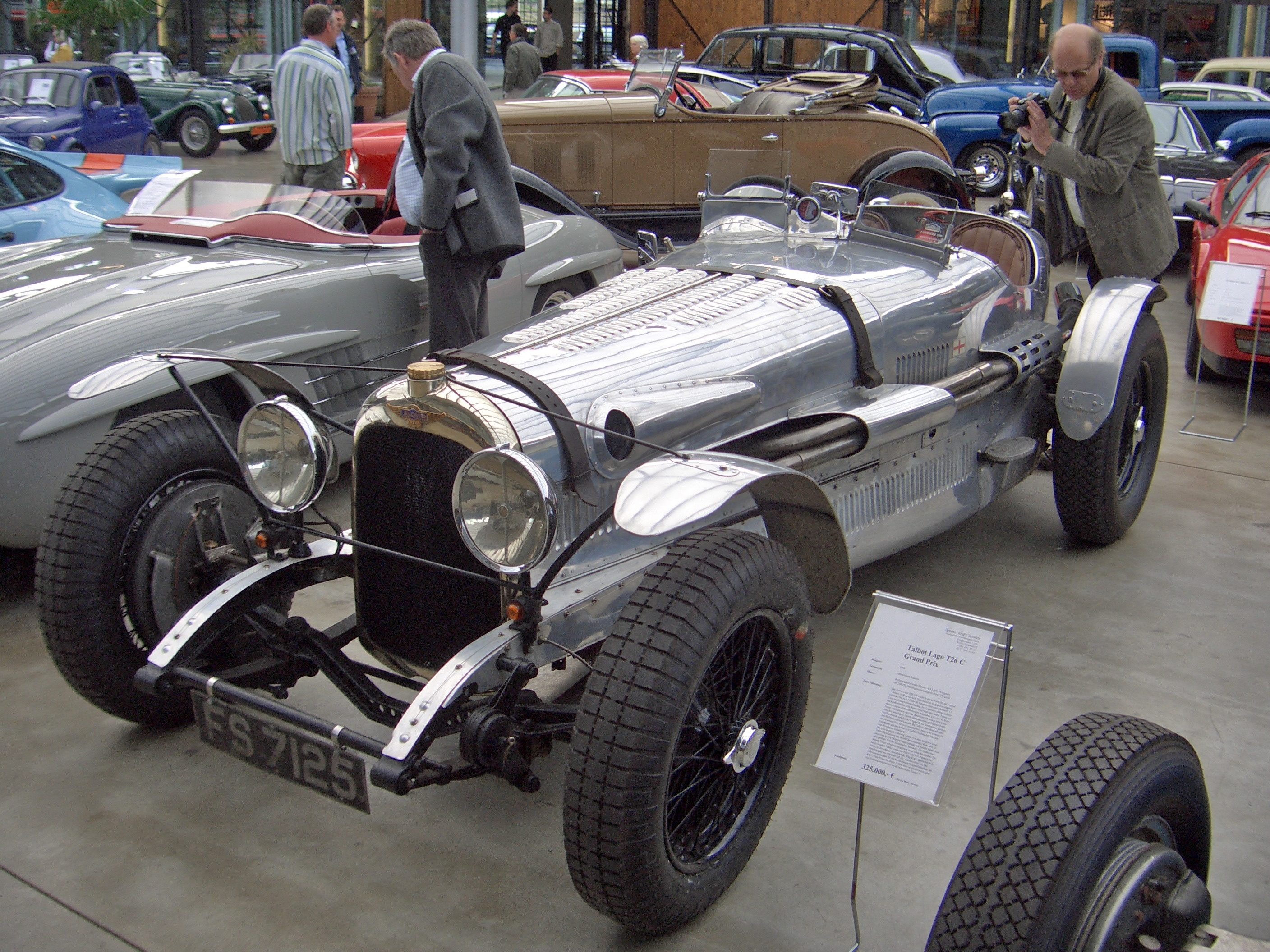 Lagonda Rapier 2-seater(DVLA) first registered 2 October 1933, 1939 cc